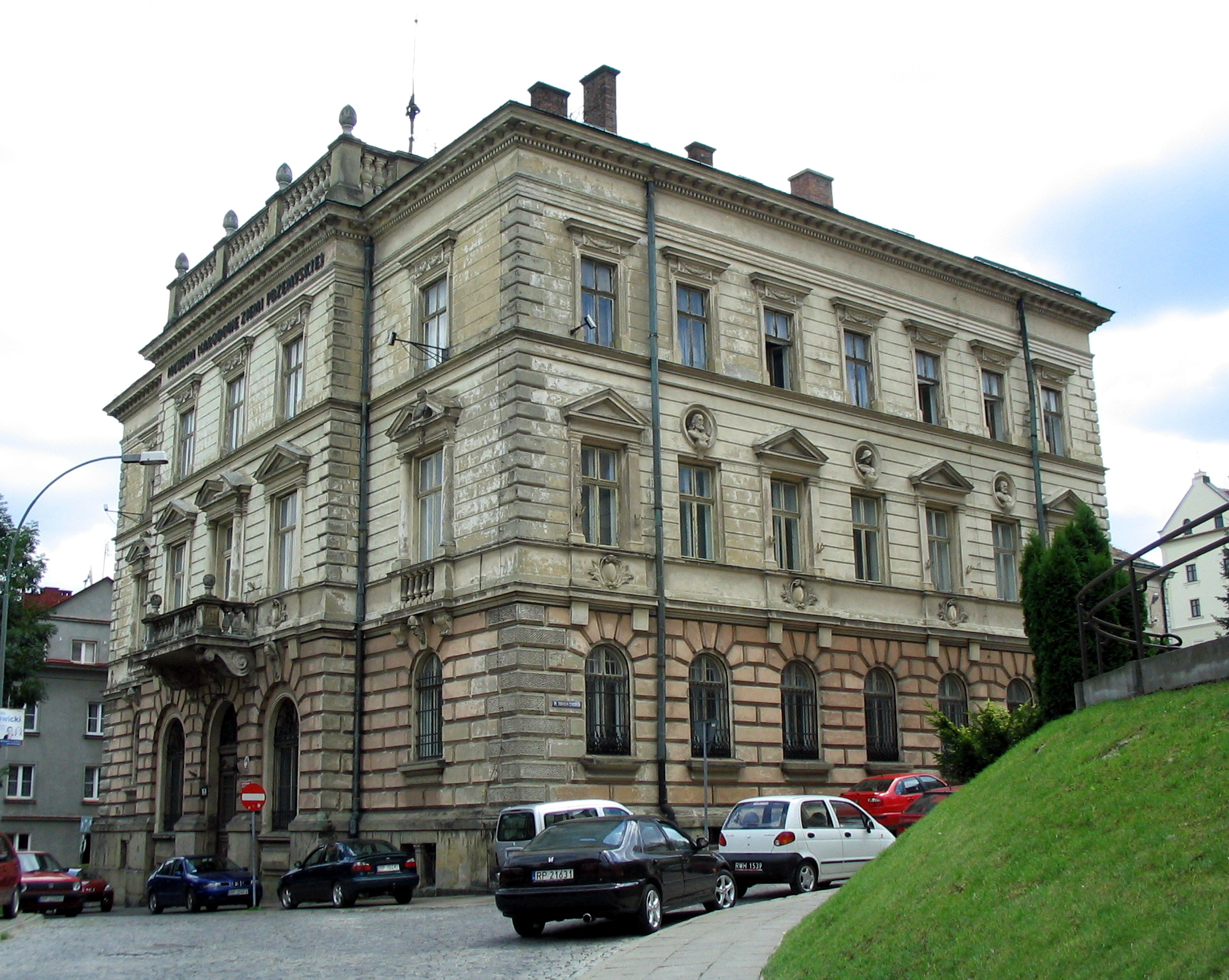 Palace of Greek-Catholic Bishops in Przemyśl, Poland.